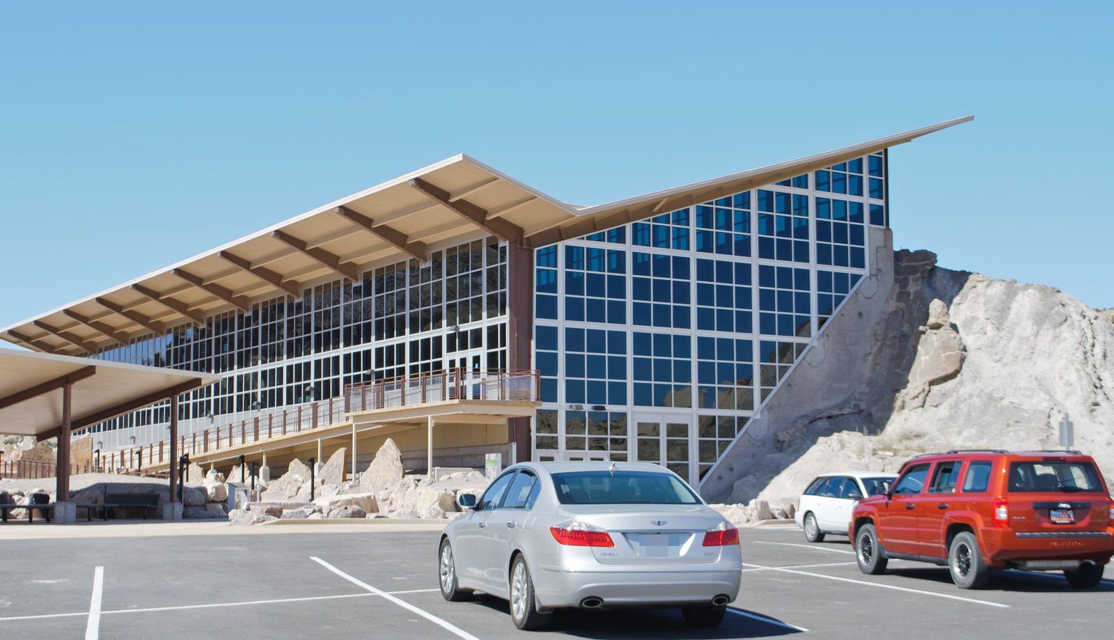 Dinosaur National Monument is located along the Utah-Colorado border. The Utah portion, located just outside Jensen, is home to the famous quarry where a large number of dinosaur bones were found and are still on display. This is the structure that covers and protects the open quarry. It had first been built in the 1950s, but thanks to improper design that did not take the geology of the soil into consideration, the building immediately started cracking and tilting. It was completely closed in 2006, demolished, and rebuilt into its current form with the American Recovery and Reinvestment Act funds from 2009; it re-opened in October 2011, and the visitor center, formerly here in a cylindrical building, was moved half a mile downhill into a brand-new building. The silver Hyundai Genesis is my car - a LONG way from home.